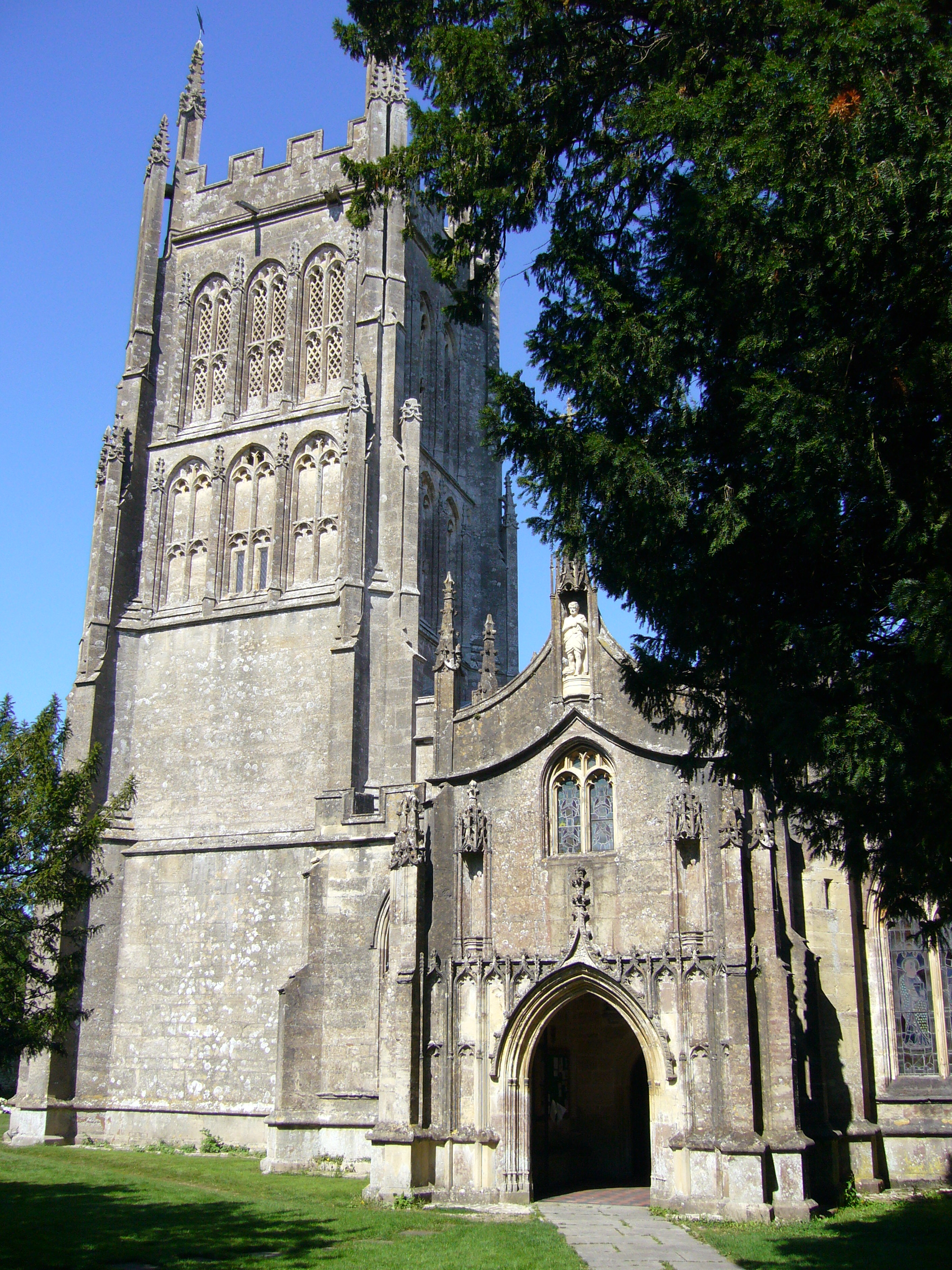 West tower and south porch of St Andrew's parish church, Mells, Somerset, seen from the south in September 2007